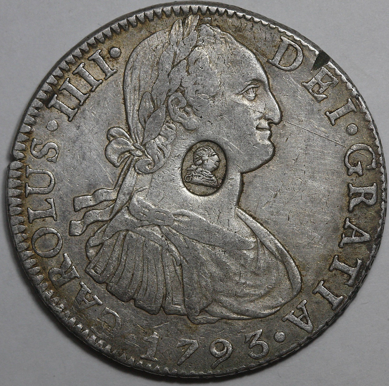 1793-M counterstamped Spanish dollar obverse (Mexico City mint). Counterstamped by the Bank of England, 1804.